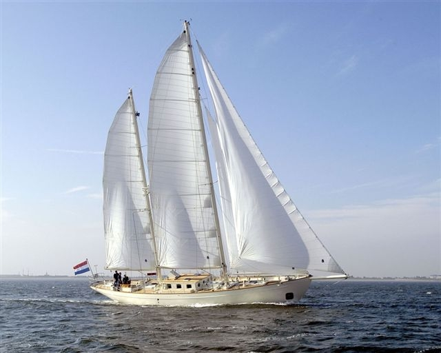 Royal Netherlands Navy Academy training sailing vessel